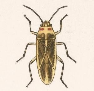 Biologia Centrali-Americana - Lygaeus cruentatus Cut-out from original (Biologia Centrali-Americana (8272535292).jpg) shown below